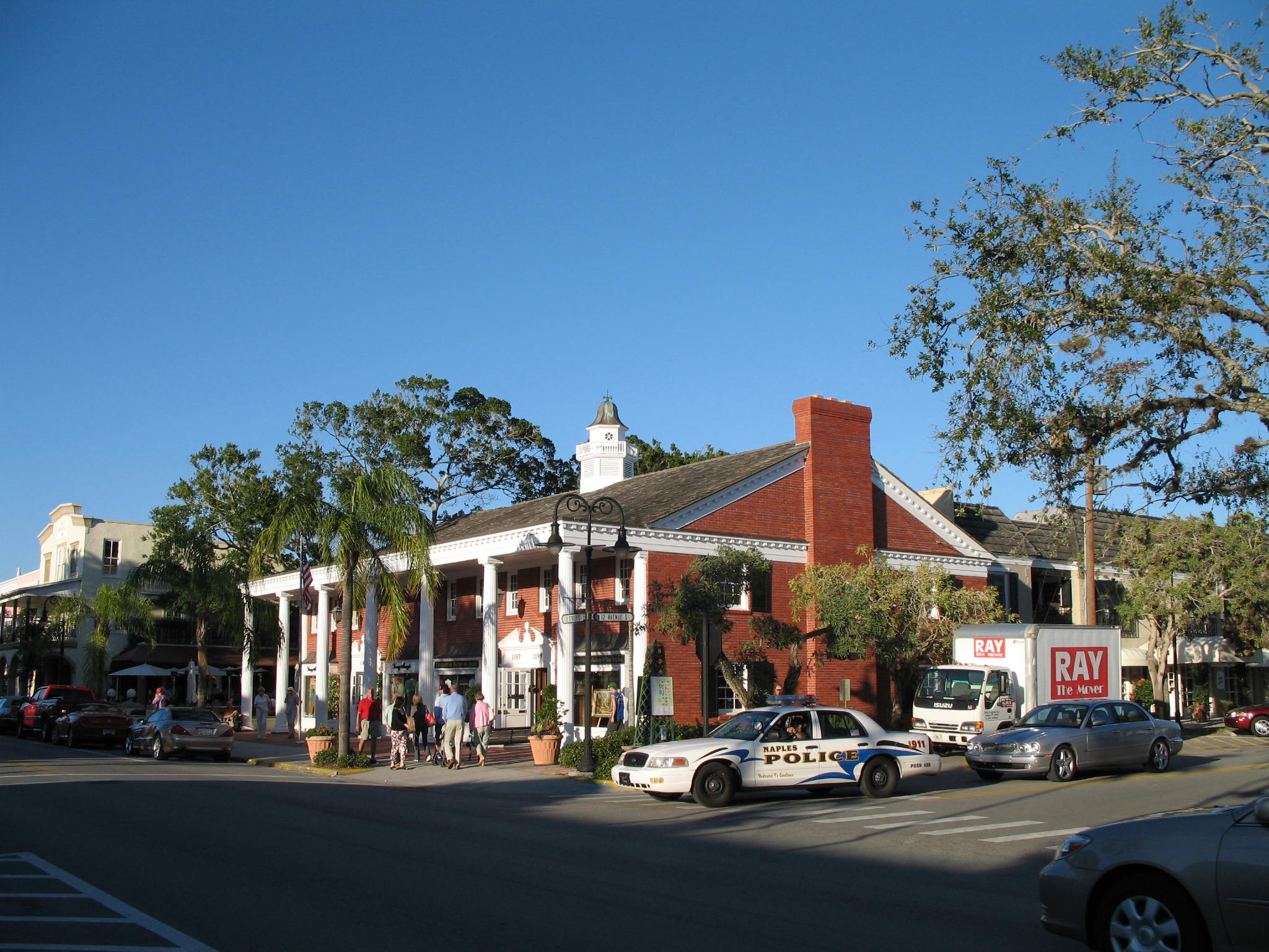 The historic centre of Naples, Florida